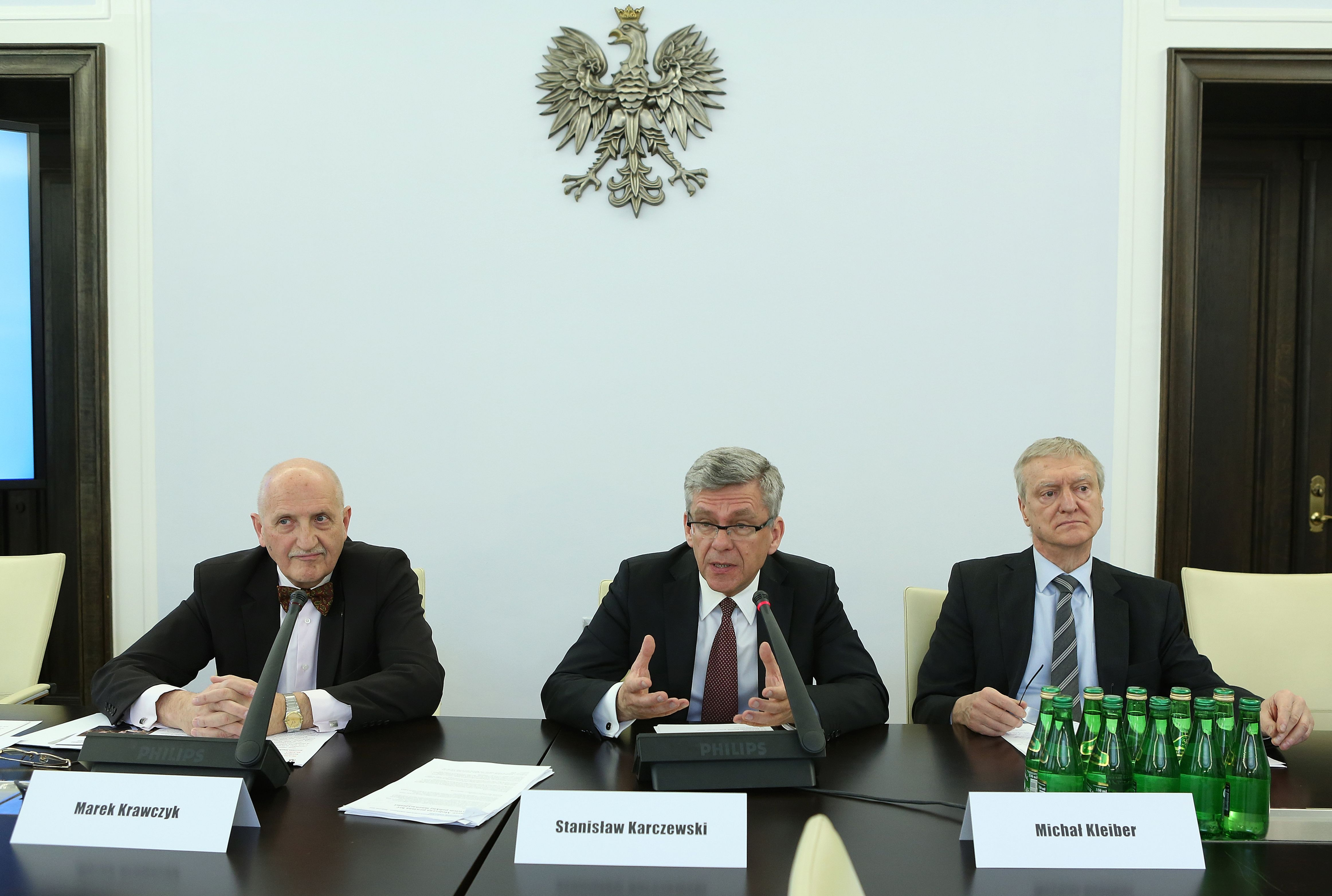 Simposium on innovation in medicine in the Polish Senate